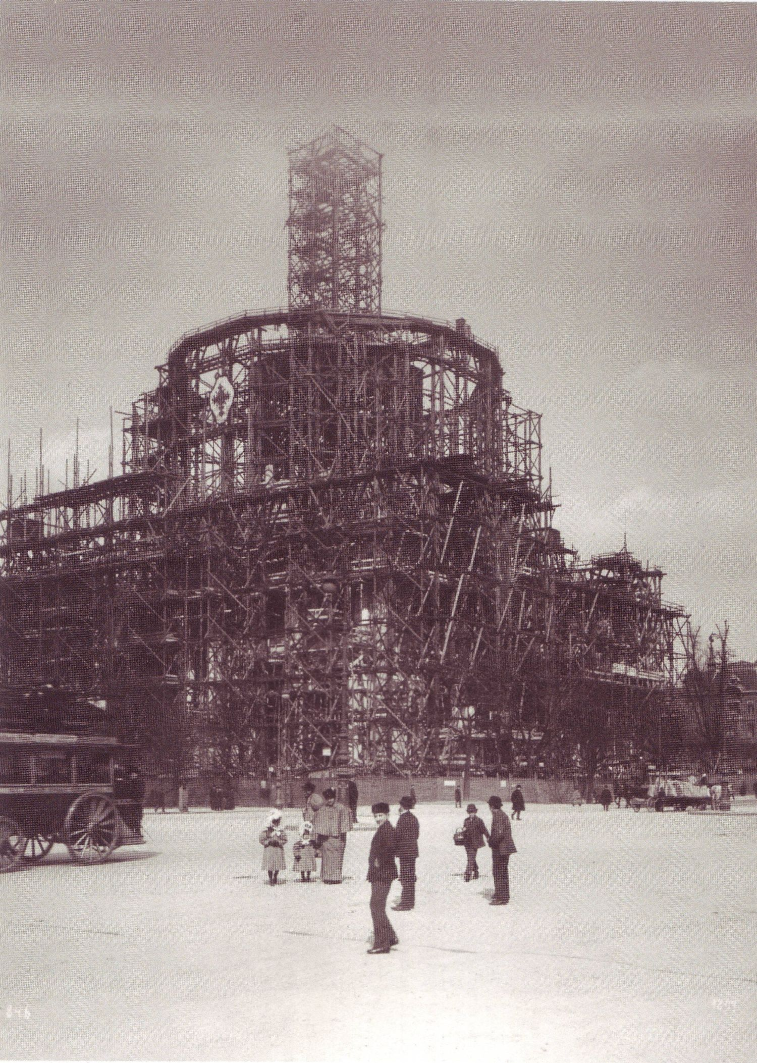 Construction of Berliner Dom, 1897